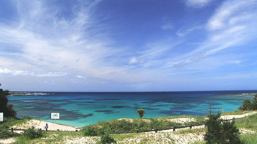 Tomori-kaigan(Tomori Beach) in Ushuku, Kasari-cho, Amami-shi, Kagoshima-ken, Japan. Capture from HDV.